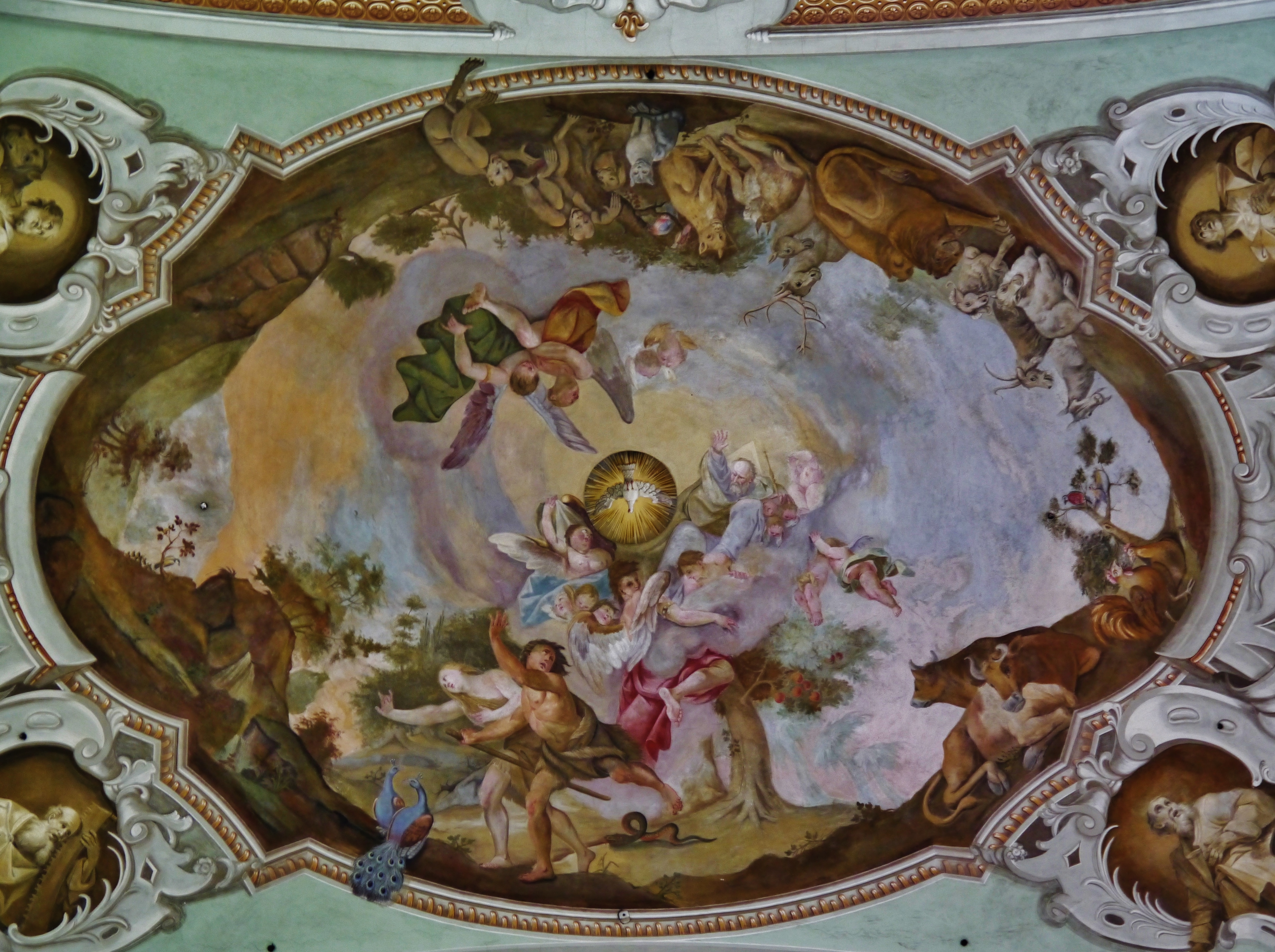 Vault of Sts. James & Leonard, Hopfgarten, Tyrol, Austria